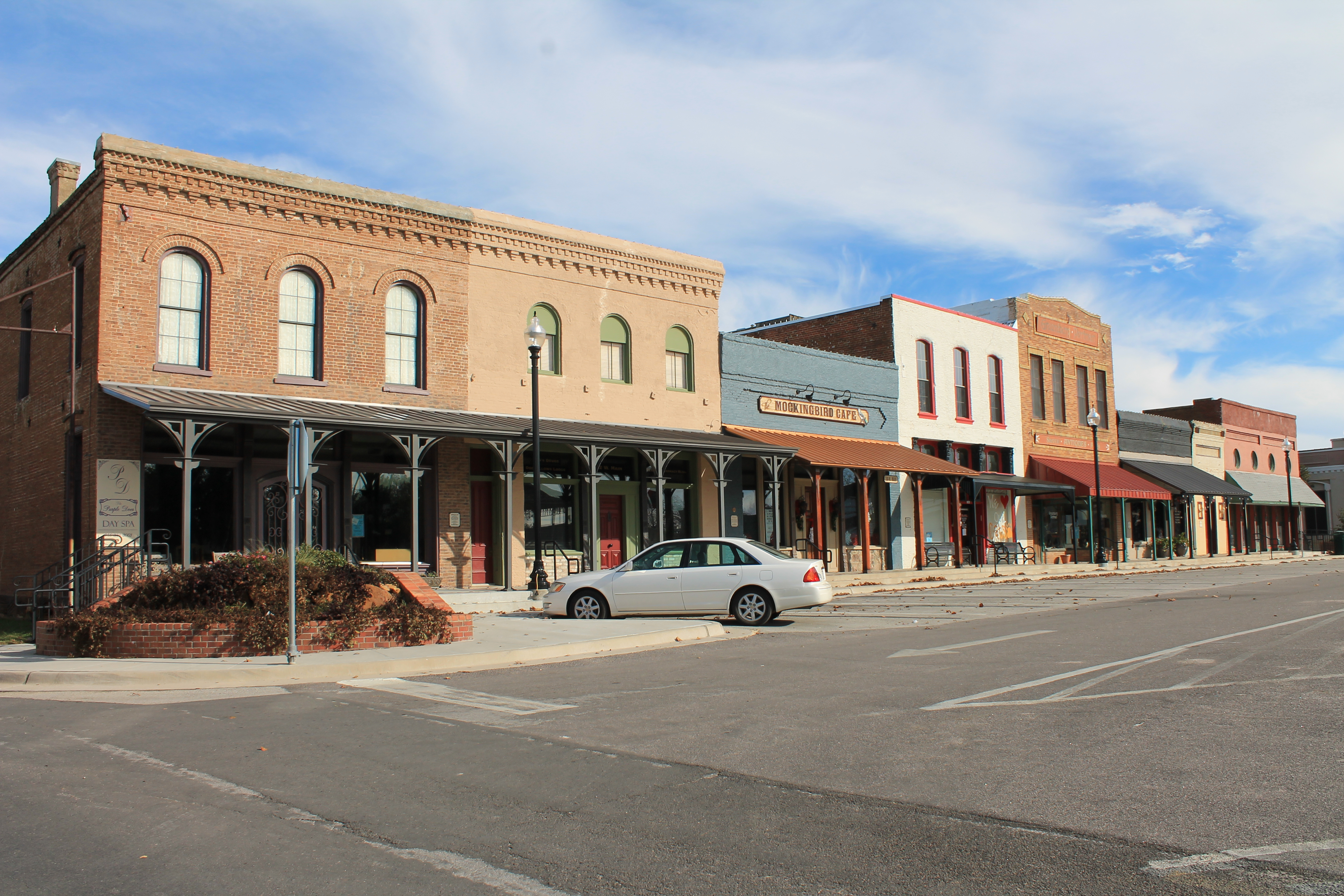 Pilot Point Commercial Historic District